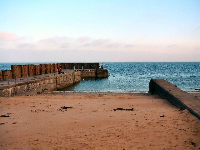 Embo Pier A small, almost deserted harbour lies at the southern end of Embo village, Highland, Scotland. Formerly used for fishing it is now only occasionally visited by leisure craft.